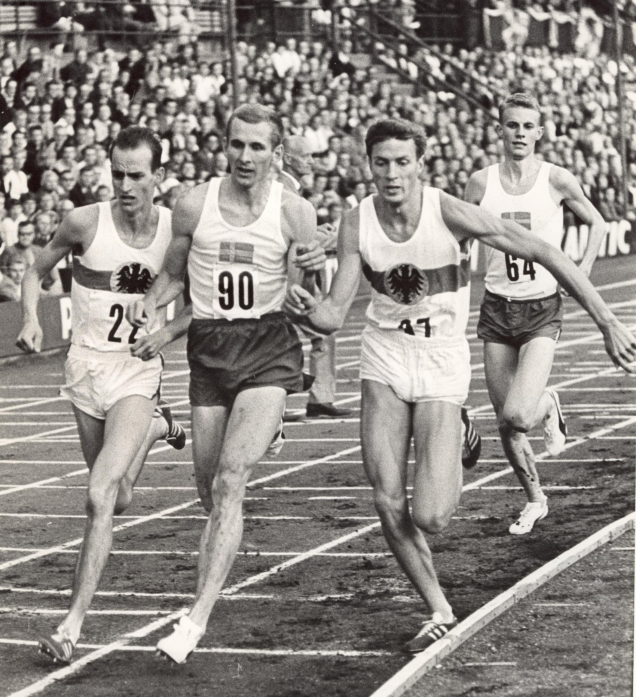 Left-right: Harald Norpoth, Karl-Uno Olofsson, Bodo Tümmler, Anders Gärderud